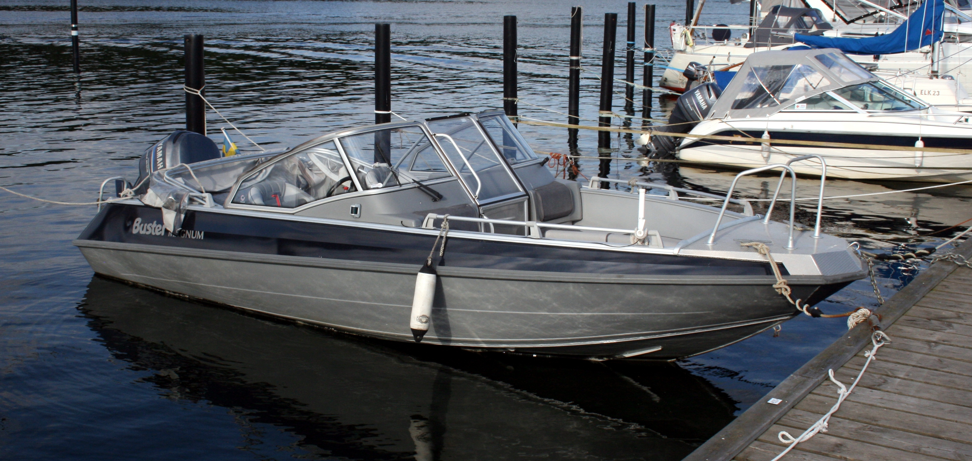 Buster Magnum